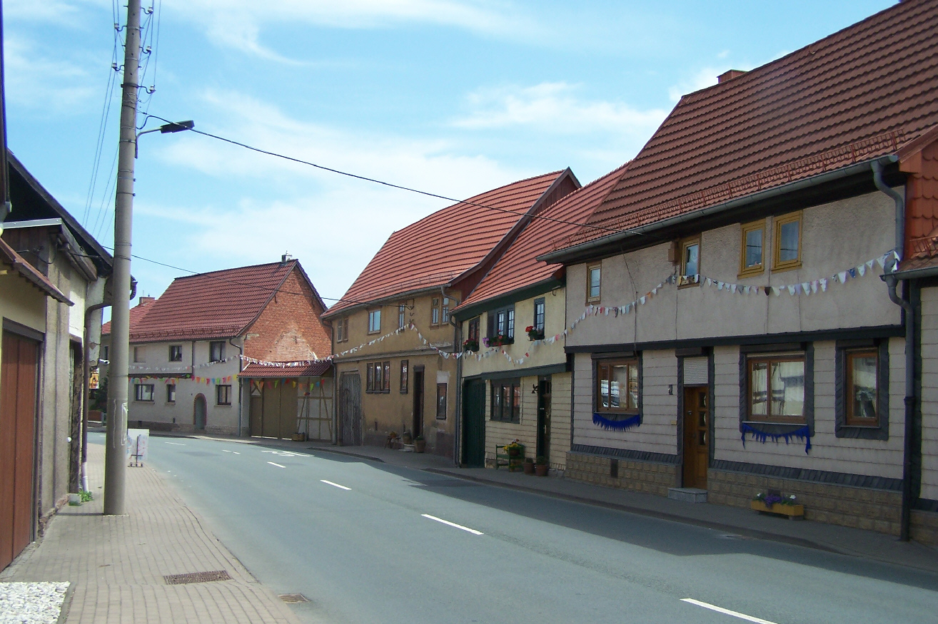 Buildings in the centre of Wahlwinkel village.